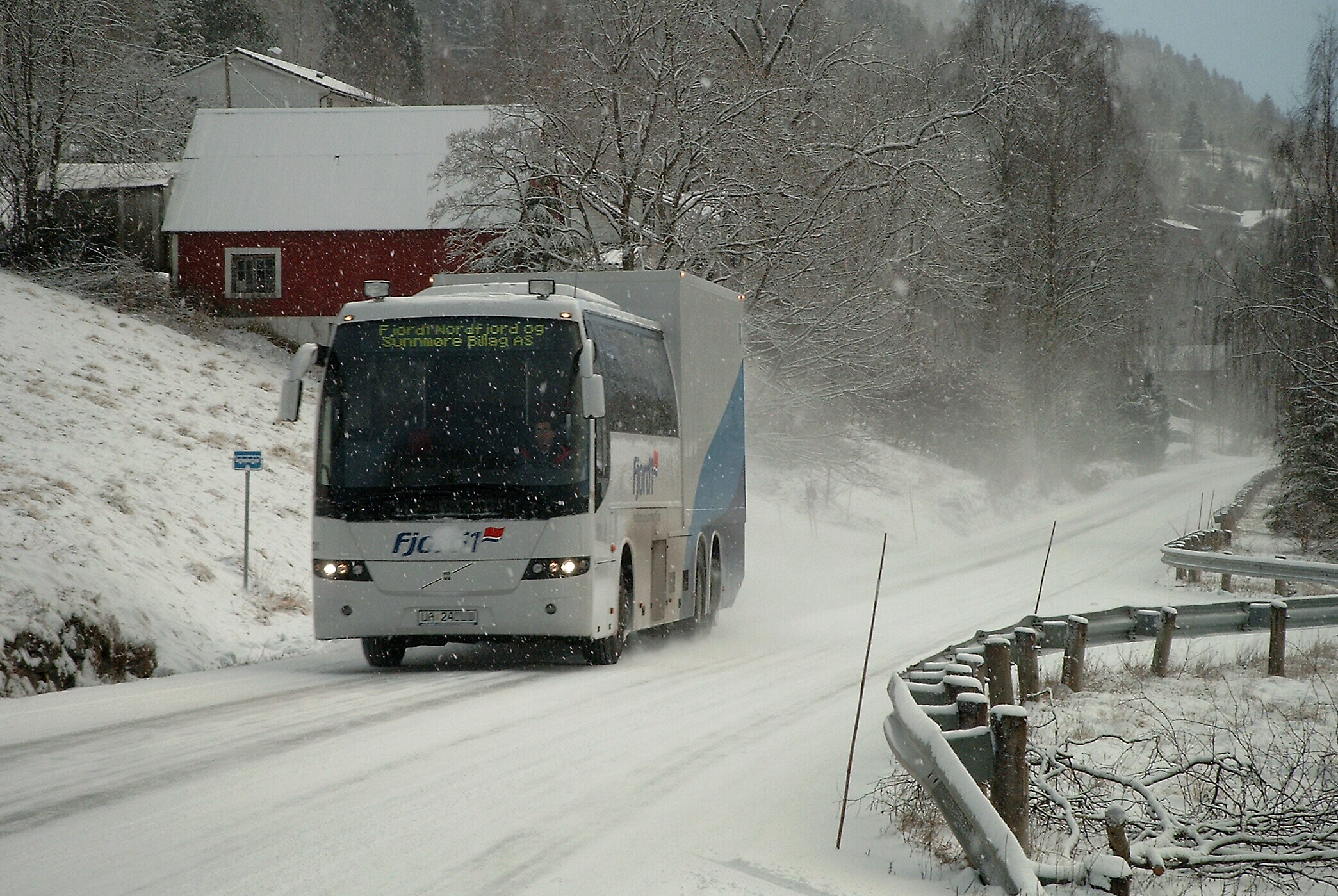 Combined bus for passengers and fright (Bruck)